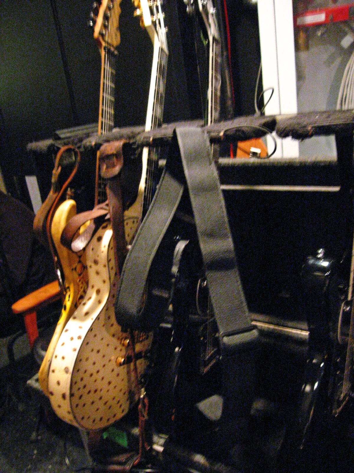 Alice in Chains guitars